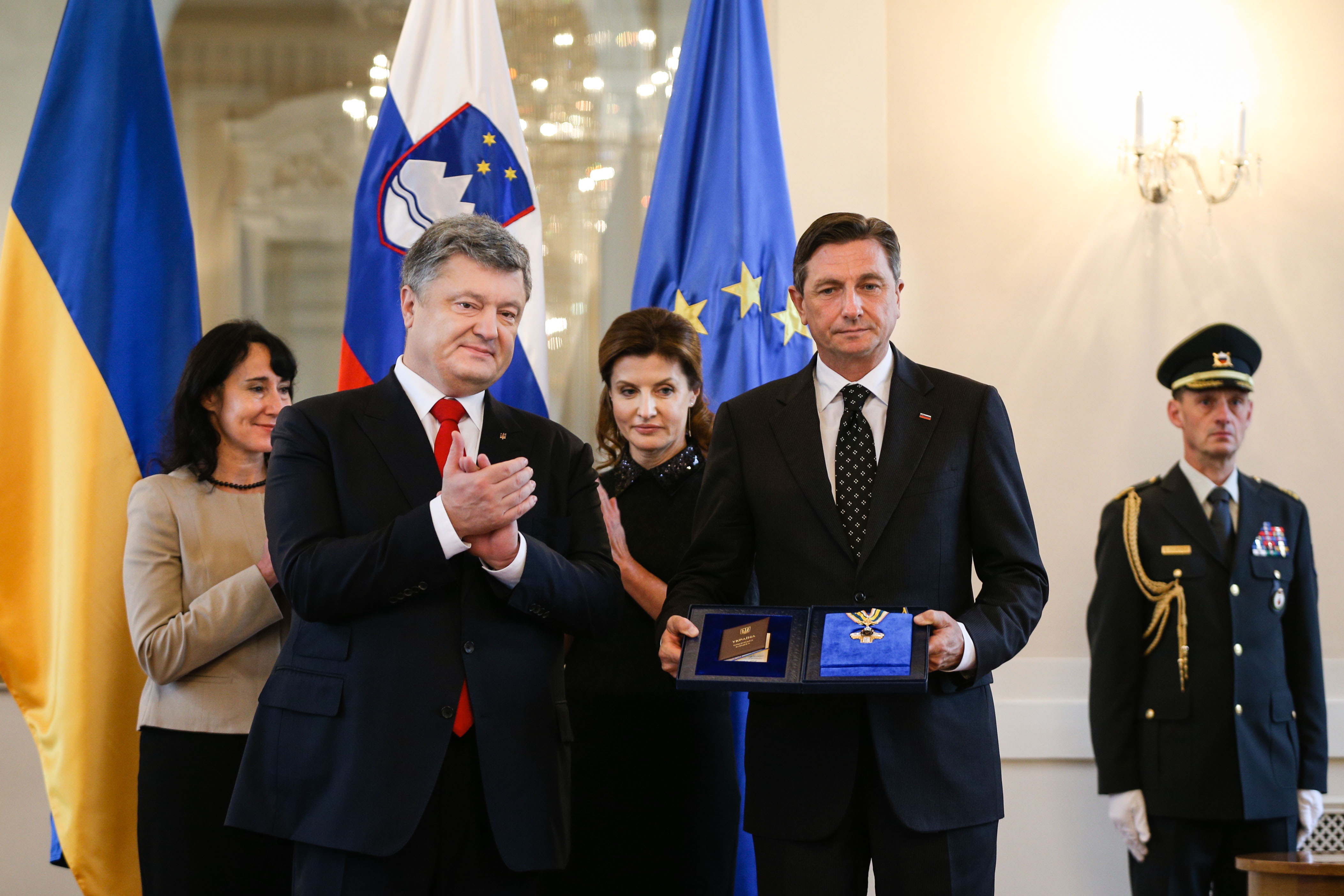 Petro Poroshenko in Slovenia in 2016.